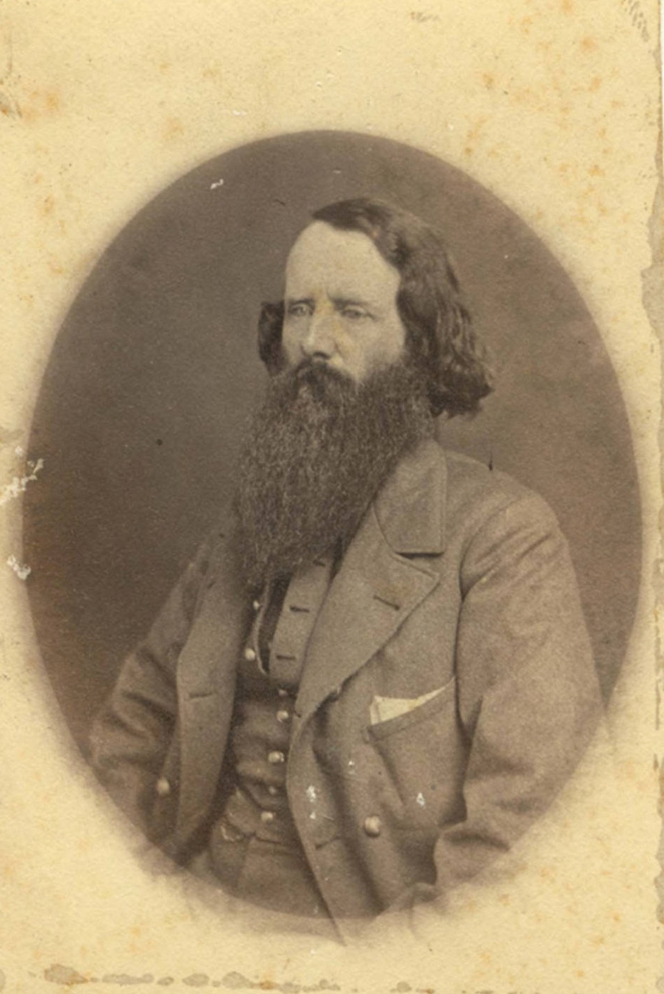 Carte-de-Visite of Carter Littlepage Stevenson, Collections of the Alabama Department of Archives and History